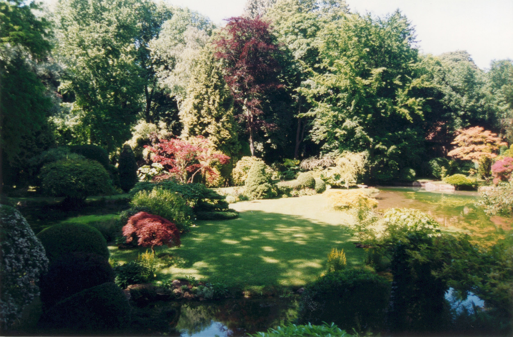 Castle of Courances (Essonne, France) japanese garden